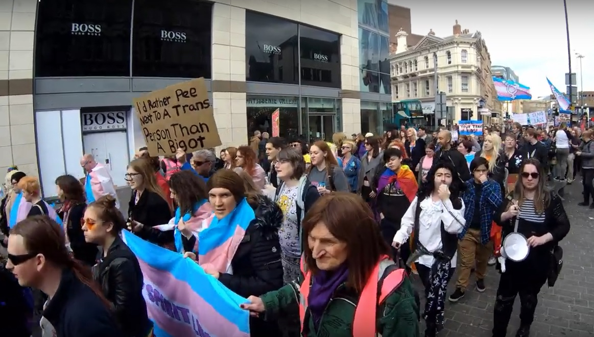 Liverpool Trans Pride march, Sunday 31st March 2019, on Whitechapel